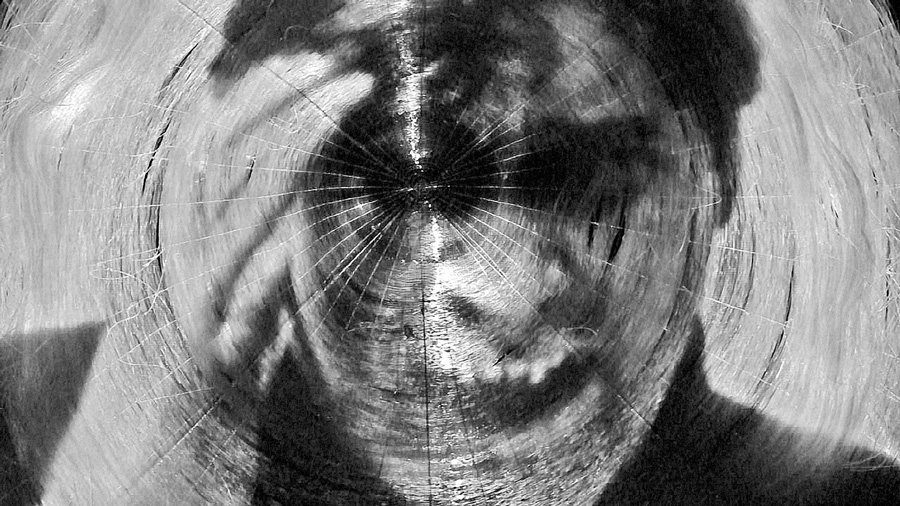 1 channel video, room installation, 5.1 sound, 5000 m Nylon wire